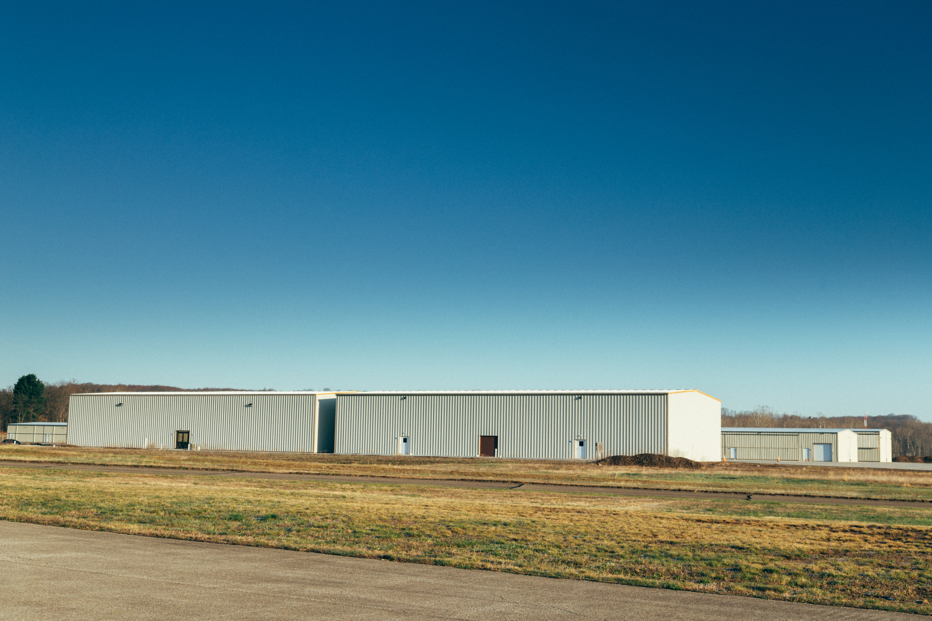 Zelienople Municipal Airport, the hangers located on the back end of the airport available for rent. Sizes are available for turbo props and jets.